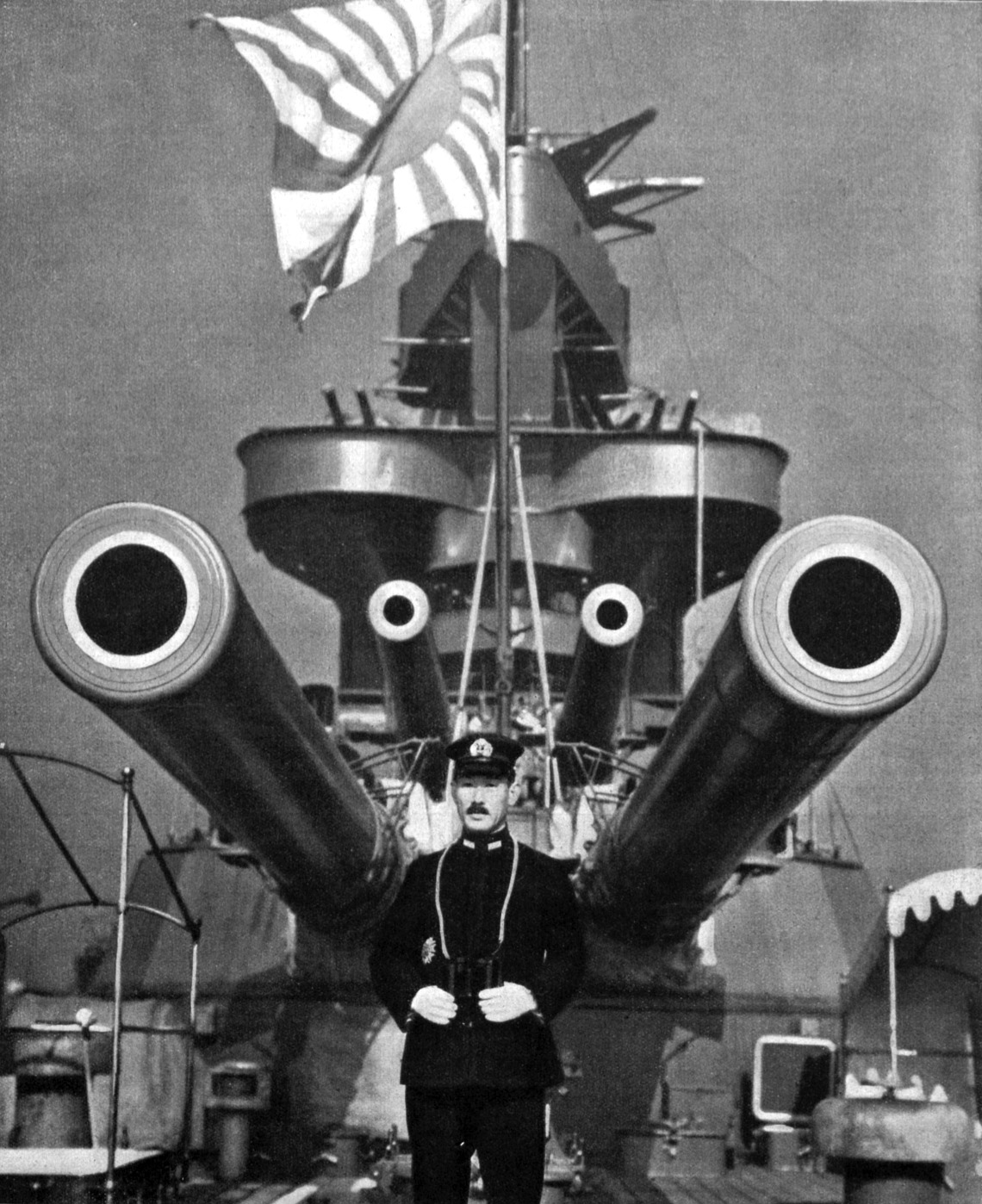 Japanese Vice-Admiral Sankichi Takahashi (1882-1966) in front of the Rear 14-inch gun turrets of the Battleship Yamashiro. There is an objection in the above sentence (I am sorry by poor English writings) The setting of the photograph is Fuso model battleship The form of the bridge deck before modern remodeling, Fuso for 1930-1933 years, Yamashiro is 1930-1934 yearsIn being redecorated This at least photograph is a thing before 1930. Of person "Sankichi Takahashi" of also this photograph It is a career until 1930 after the Fuso completion more, In 1924/5 before the Aso captain assumption of office By the land and foreign service, Afterward the Fuso captain, the Naval General Staff, the combined fleet chief of staff, From 1928 I board Akagi as the 1 aviation squadron commander. Of time when I acted as Commander 1 aviation squadron Yamashiro becomes the combined fleet flagship in 1928/12-1929/11, When the commander of other fleets boarded a combined fleet flagship on some kind of business It is not thought that I remove a crew than a front part deck and a bridge deck and took a ceremonial photograph Because if it is the combined fleet chief of staff, I should put on an epaulet (staff officer aiguillette), As for this photograph, Takahashi is a period of 1924/11-1925/12 for the Fuso captain era, The warship of the background is thought to be very likely to be Fuso not Yamashiro.